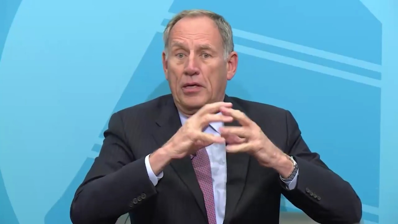 Toby Cosgrove speaks to the City Club of Cleveland